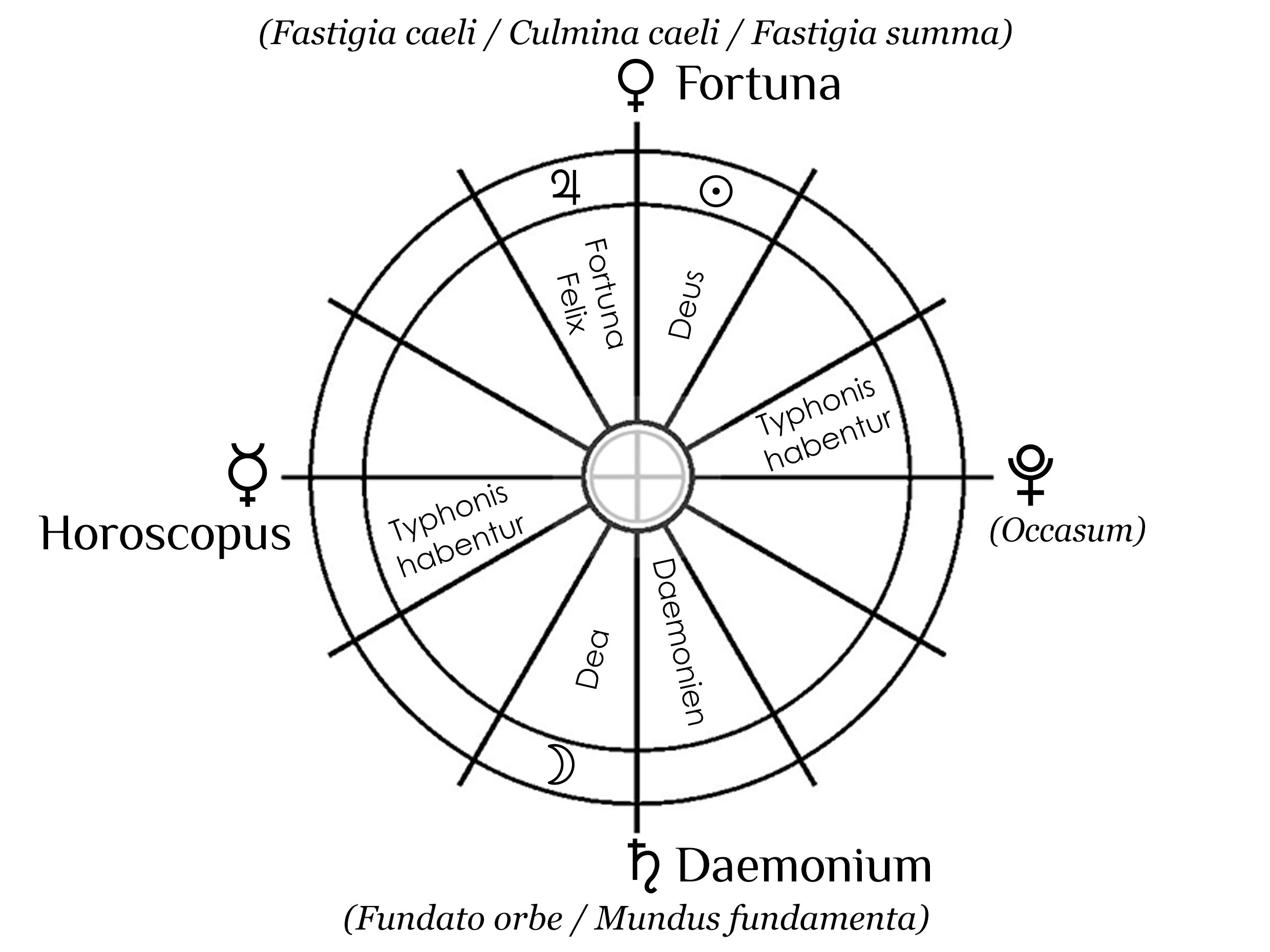 Parts of the world (predecessors of houses in astrology) according to Marcus Manilius. Made with M. Manilii Astronomicon. - London: Grant Richards, 1912. - V. 2. - P. 87-116.